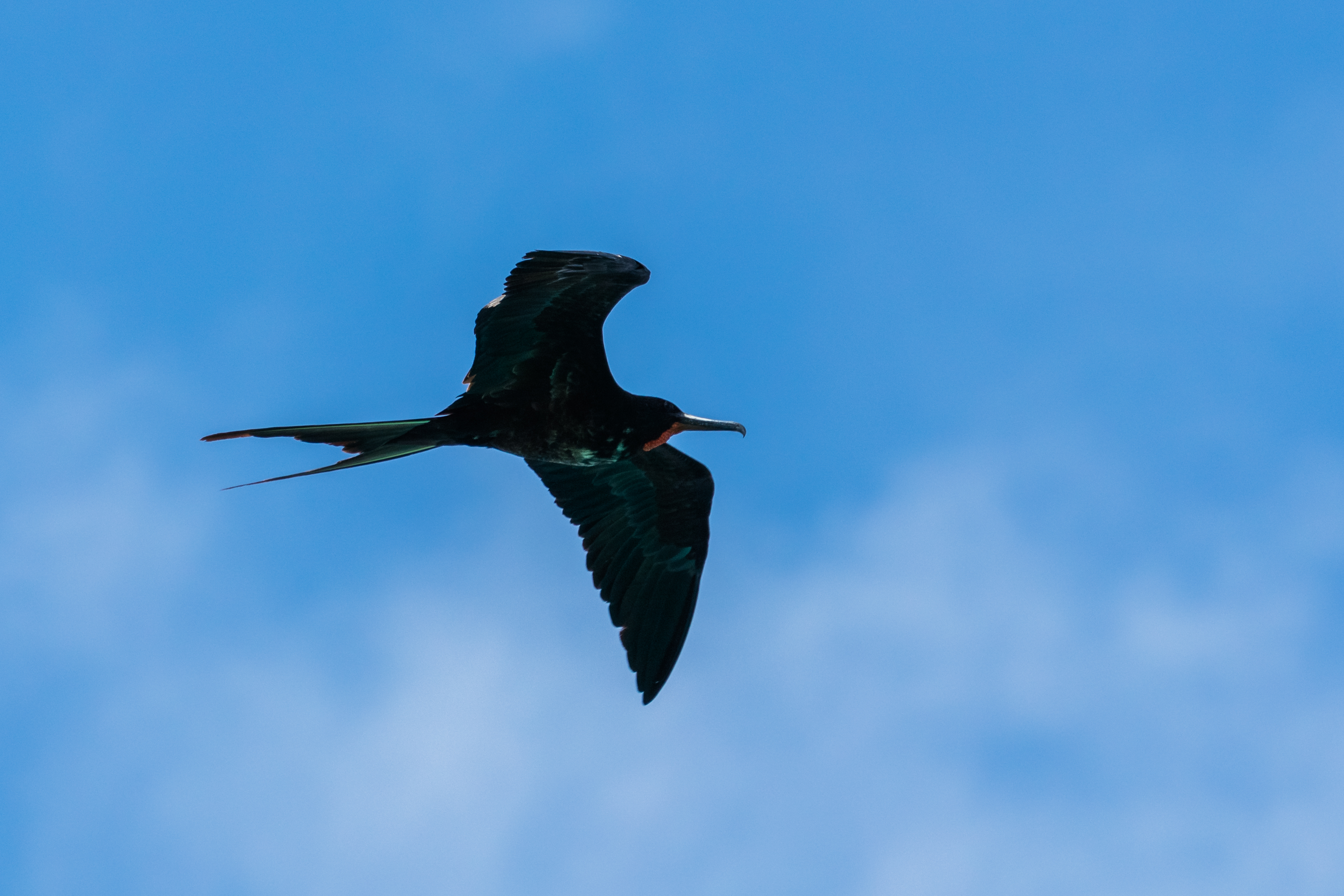 Great frigatebird (Fregata minor), Baltra island, Galapagos islands, Ecuador